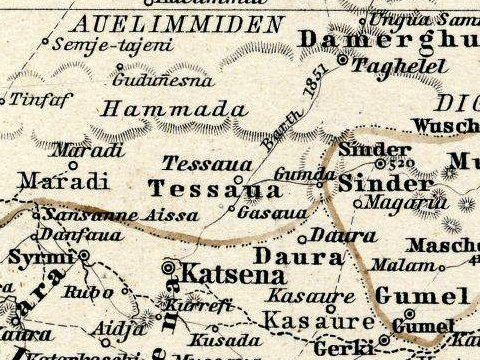 Tessaua (Tessaoua) in Adolf Stielers Handatlas, 1891.